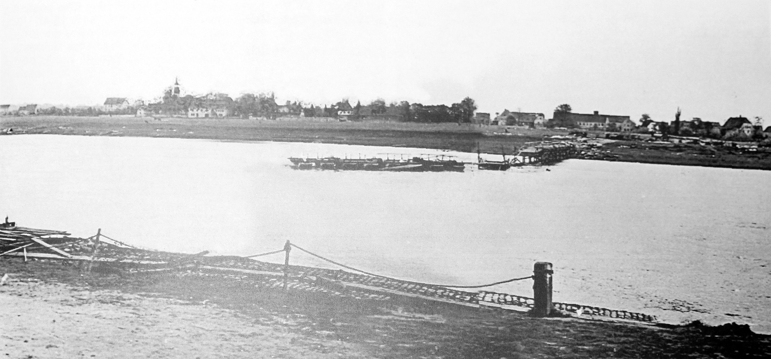 the by Germans destroyed ponton-brige of Lorenzkirch, behind about several hundred German woman, children and old people were killed by soviet artillery wich fired from Jacobsthal, April 23 an 24 1945